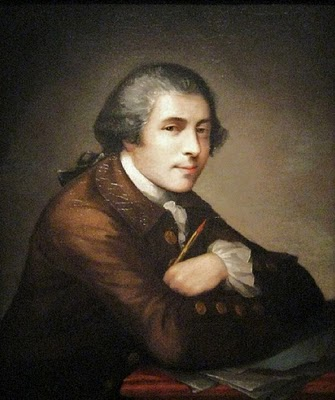 Matthew Pratt (American Colonial Era Painter, 1734-1805) Self Portrait